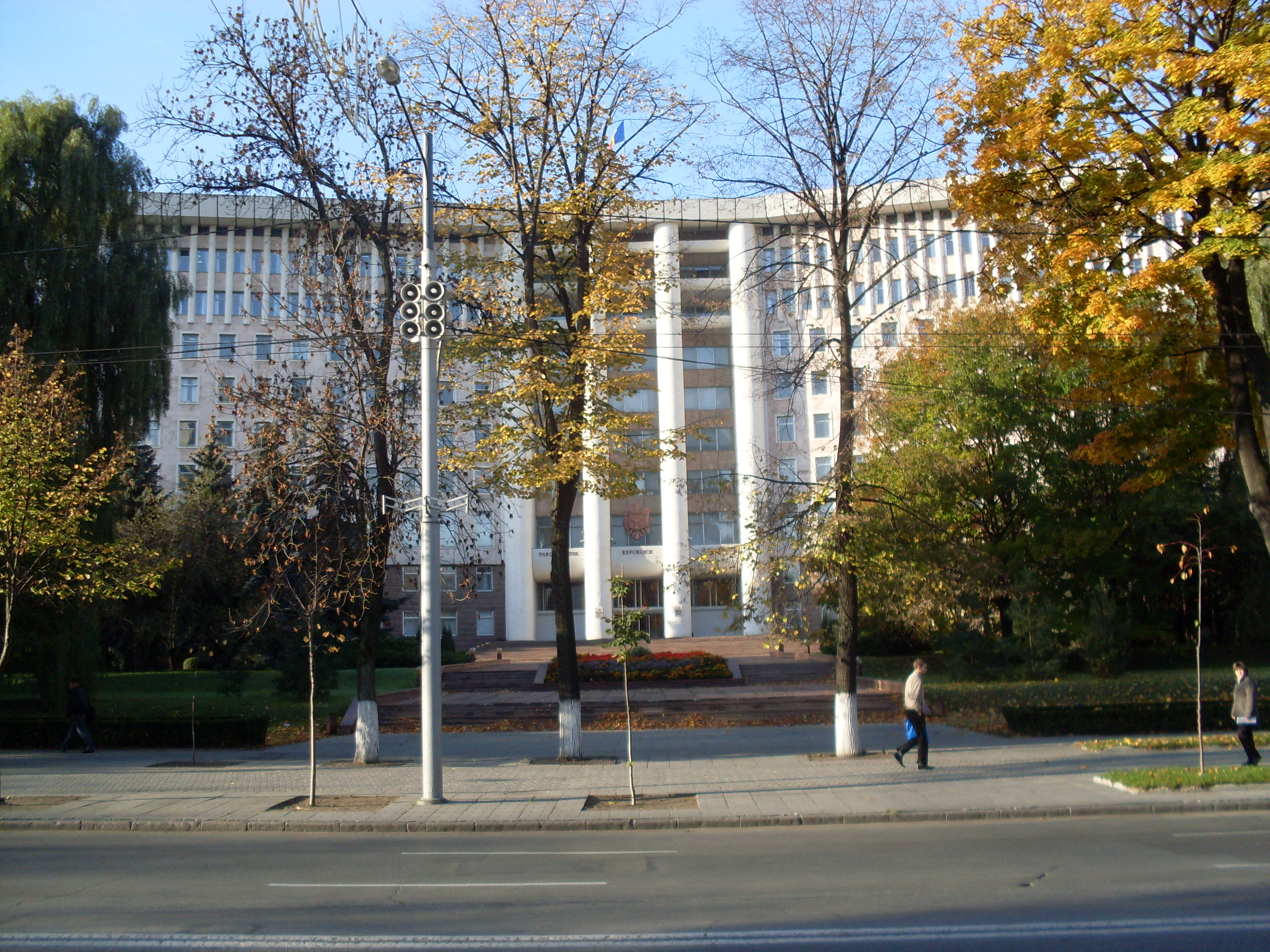 Front side of the Parliament of Republic of Moldova